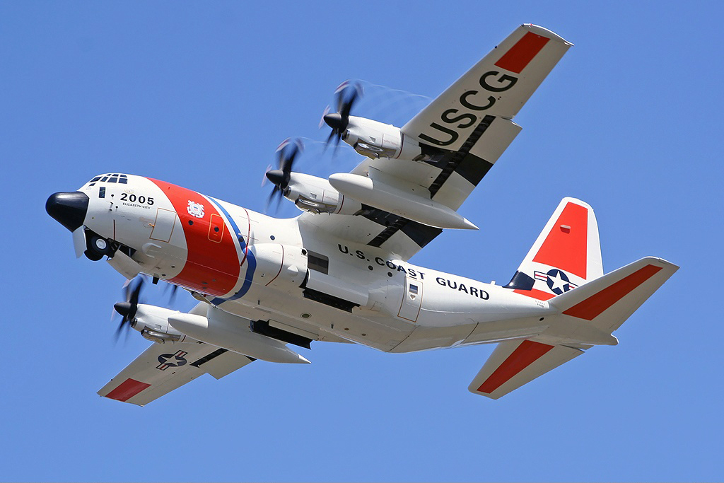 US Coast Guard HC-130 Hercules taken at Lajes Air Base (Terceira Island) in the Azores